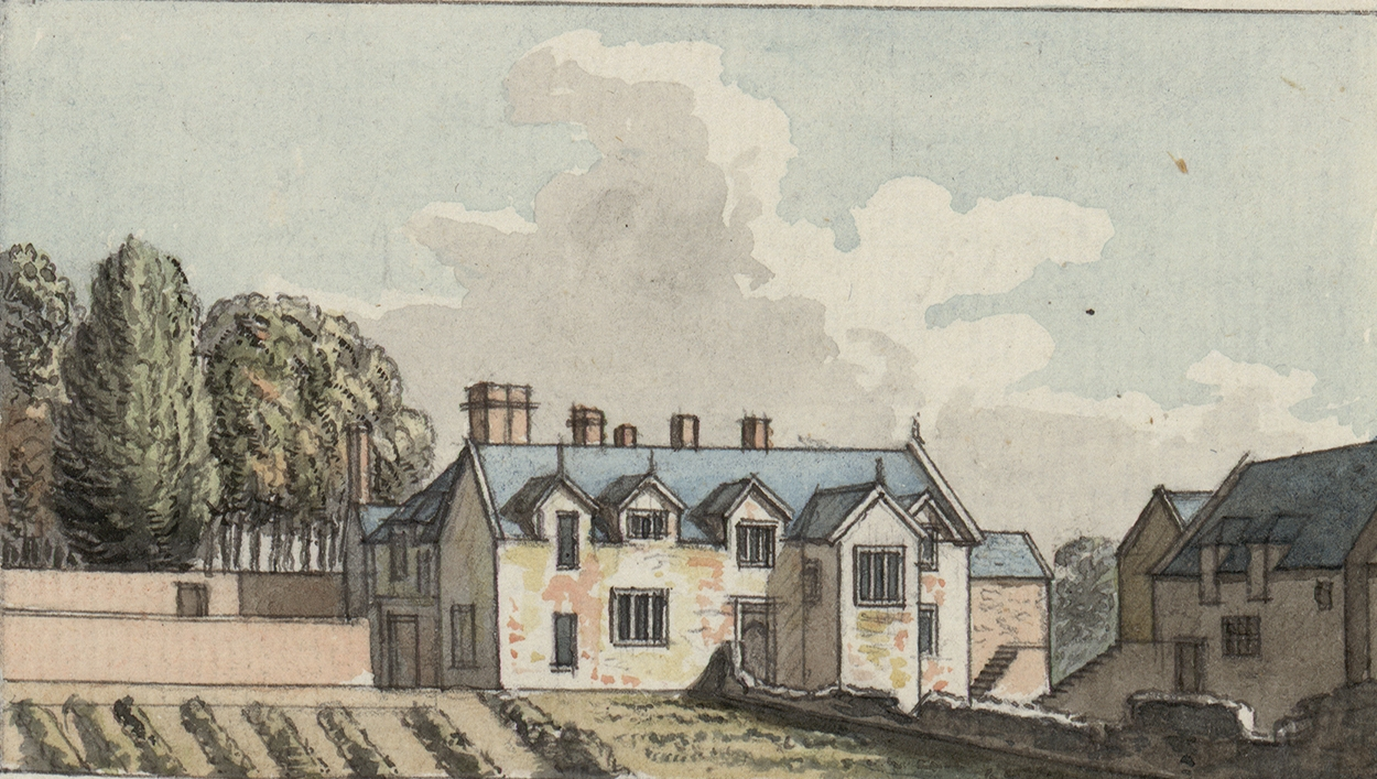 An image from a set of 8 extra-illustrated volumes of A tour in Wales by Thomas Pennant (1726-1798) that chronicle the three journeys he made through Wales between 1773 and 1776. These volumes are unique because they were compiled for Pennant's own library at Downing. This edition was produced in 1781. The volumes include a number of original drawings by Moses Griffiths, Ingleby and other well known artists of the period. Thomas Pennant (1726-1798)